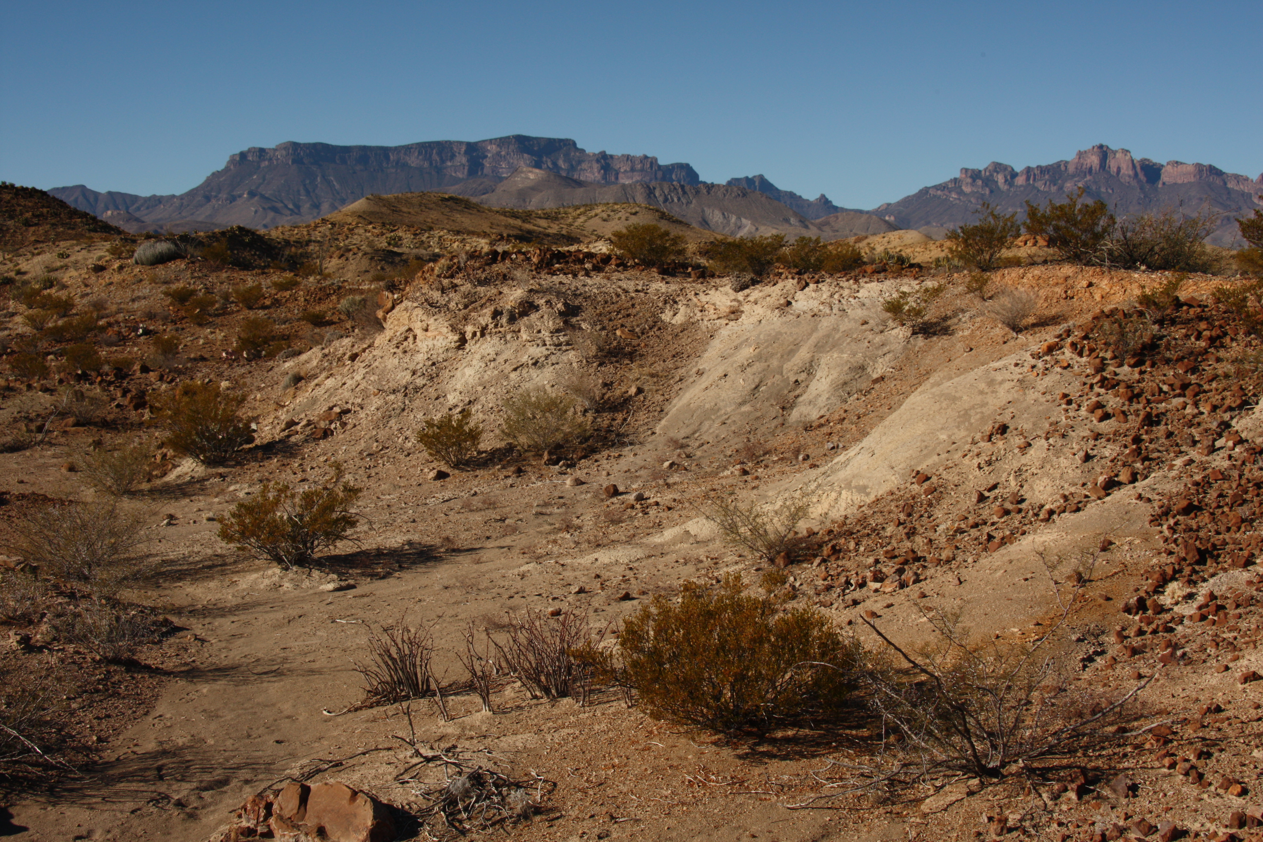 Outcrops of the Late Cretaceous (Campanian) aged Aguja Formation, Big Bend National Park, Texas, USA